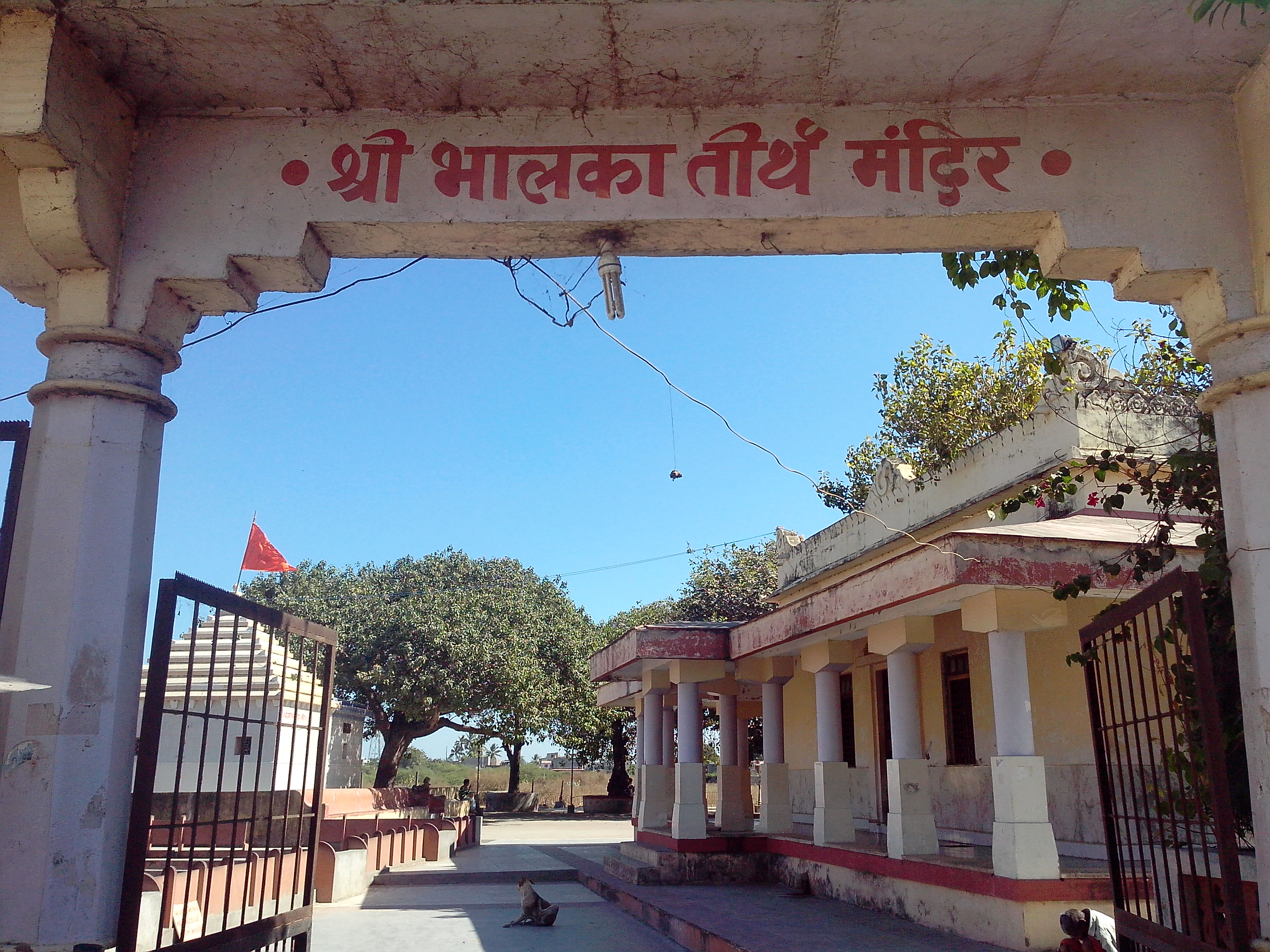 Bhalka, Near Somnath, Gujarat, India. The place where Lord Krishna left for heavenly abode in 3102 BC.